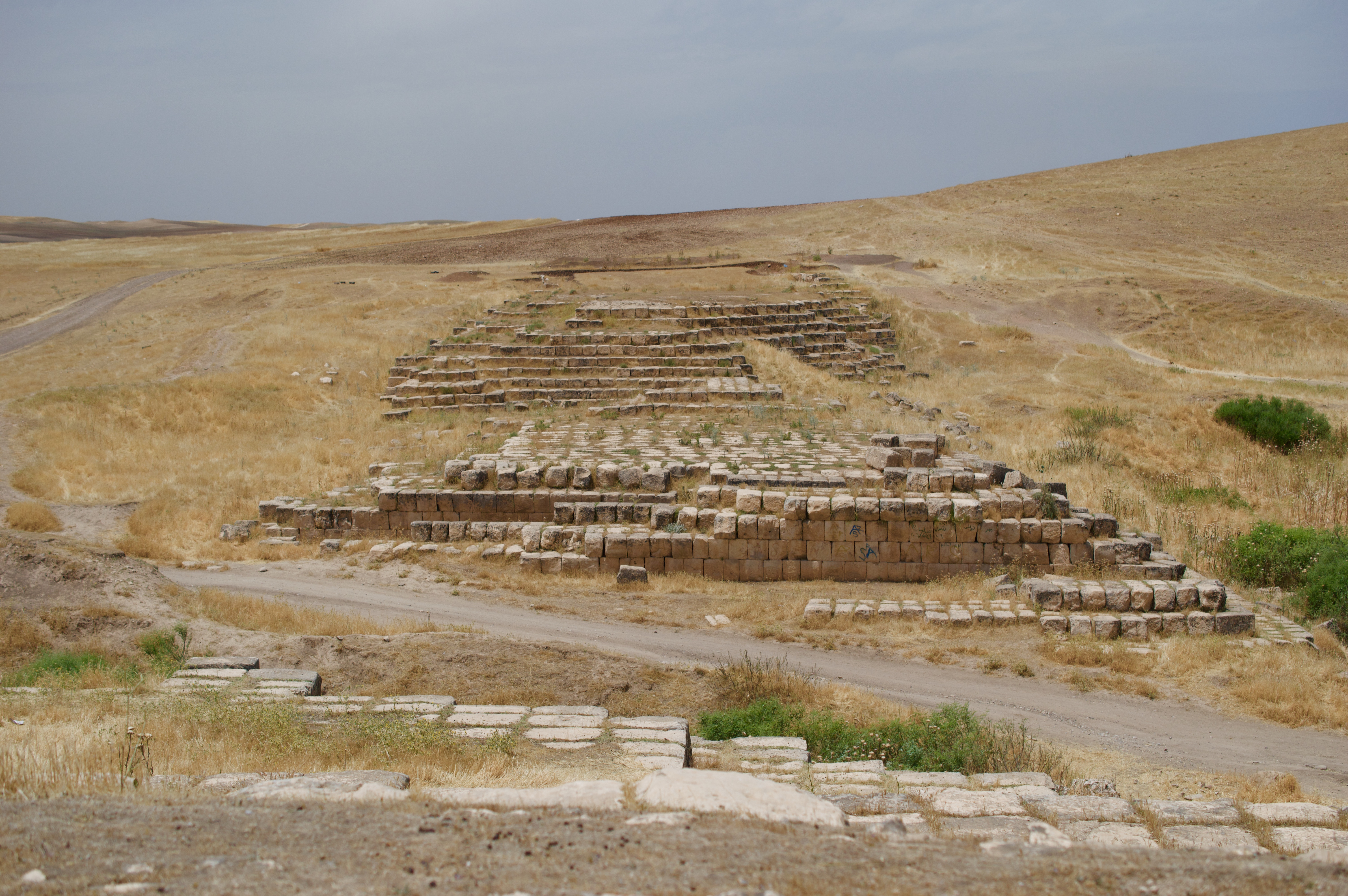 Jerwan archaeological site, part of Neo-Assyrian king Sennacherib's canal system